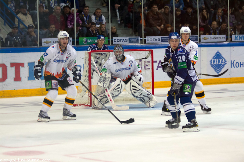 KHL game Amur Khabarovsk vs. Severstal Cherepovets on October 16, 2011. HC Severstal players in white (LTR): Alexander Boikov, Vadim Tarasov, Pasi Puistola. Amur players in blue: Petr Vrána on the foreground and Dmitri Tarasov behind the net.